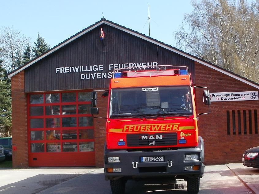 Hamburg (Duvenstedt), Germany: Firehouse of volunteer firefighters